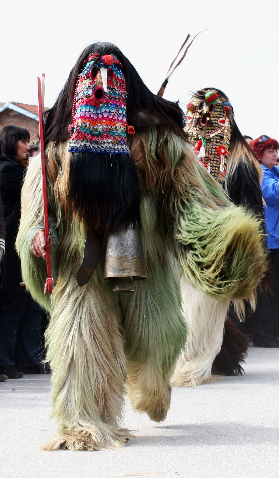 Kukeri, Bulgaria